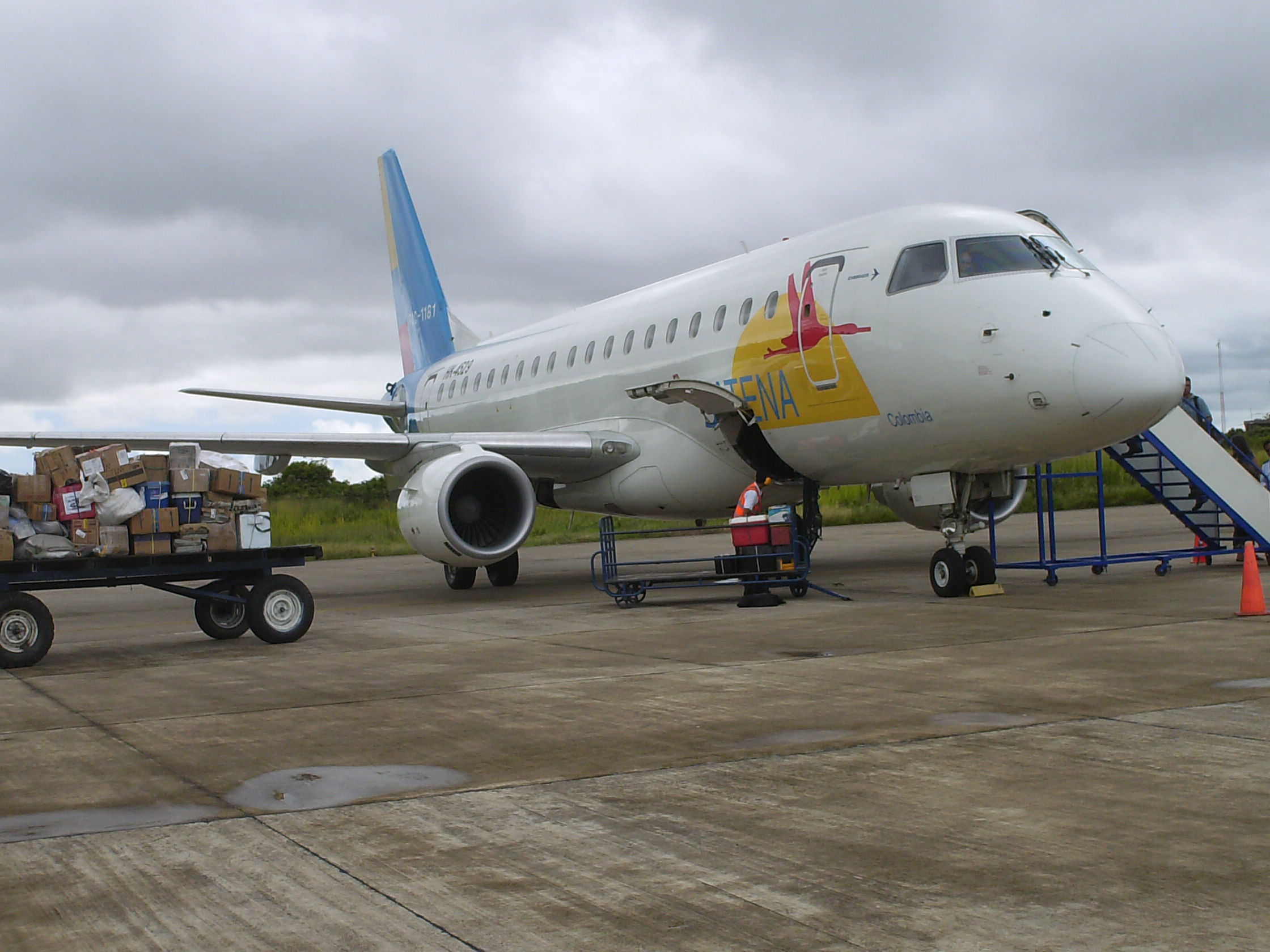 This image shows the Embraer 170 jet of the Satena fleet, during loading in the Santiago Pérez Quiroz Airport.